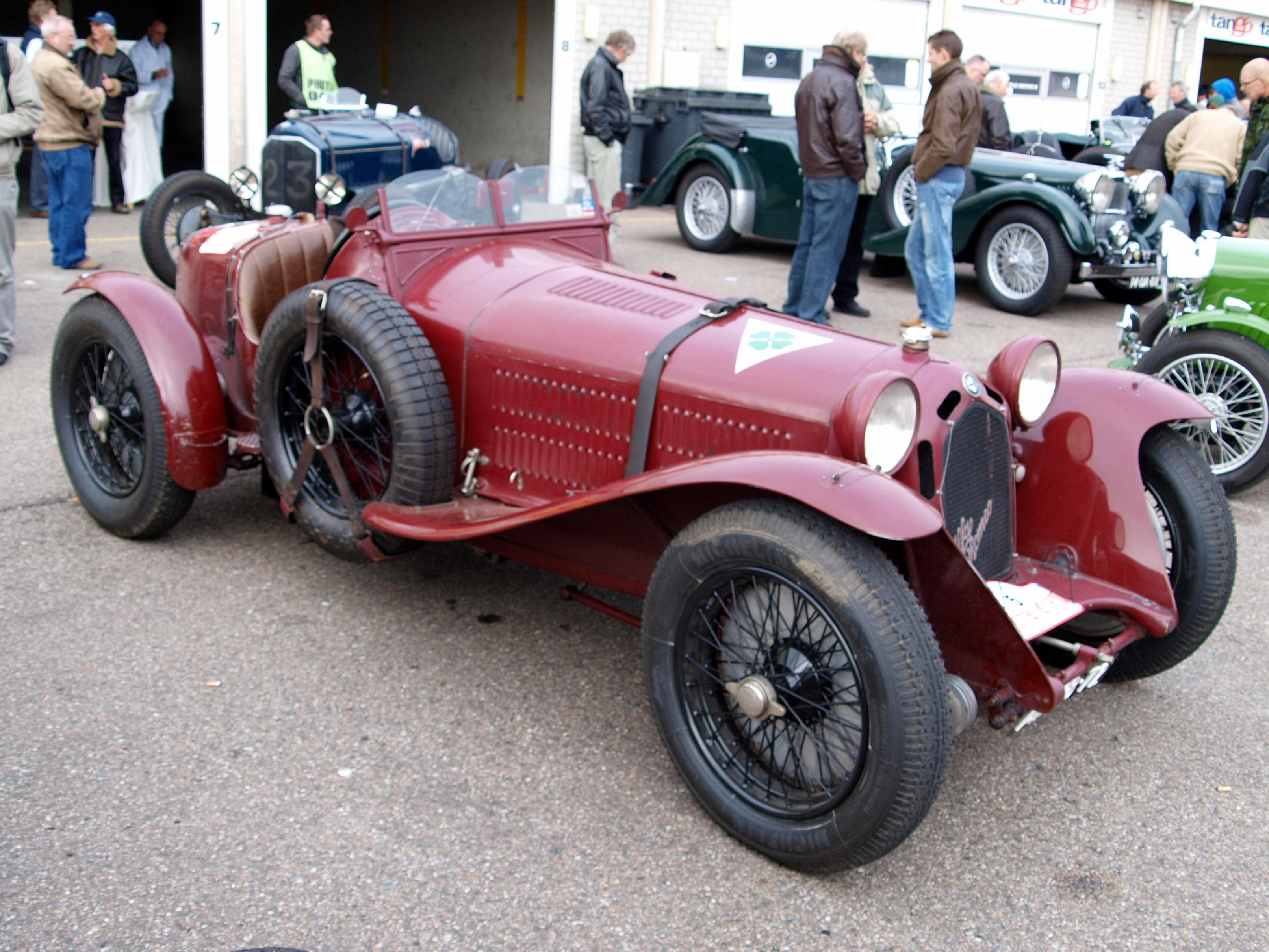 Photographed at the Nationaal Oldtimer Festival Zandvoort 2010, The Netherlands.